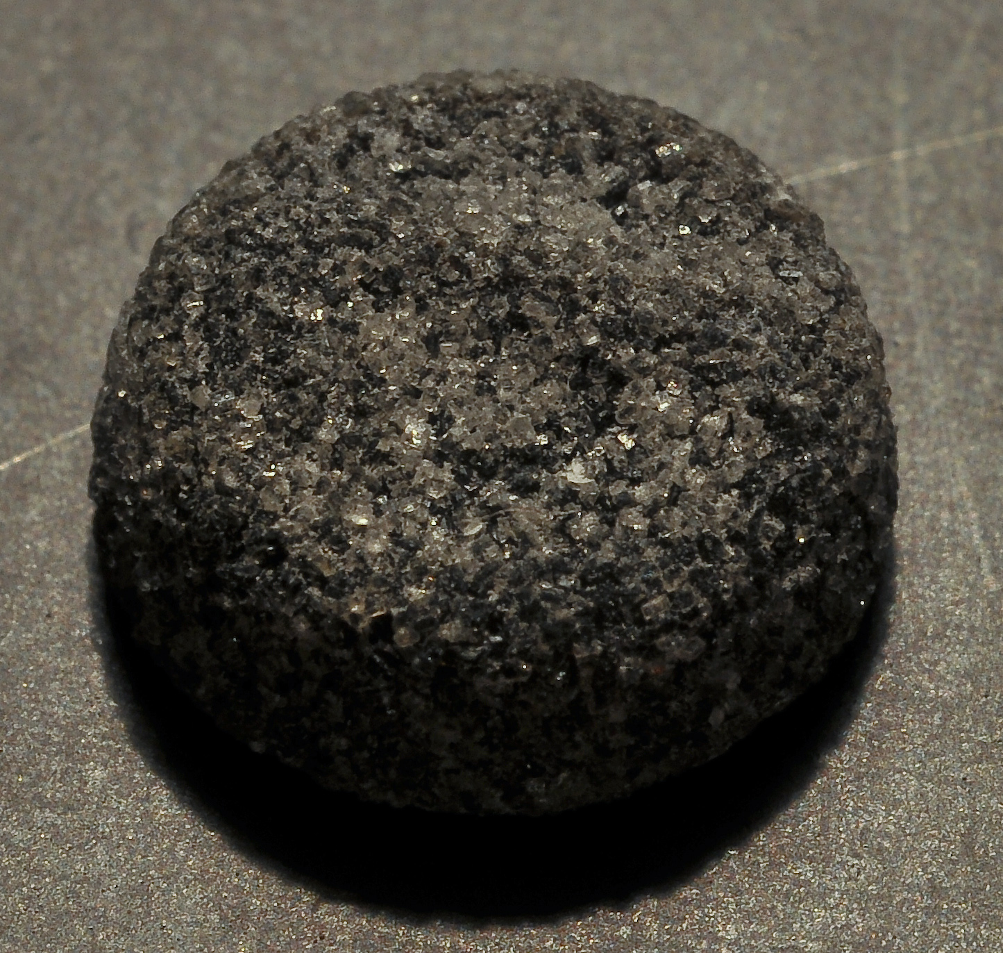 Terva Leijona. Finnish liquorice candy with tar taste.